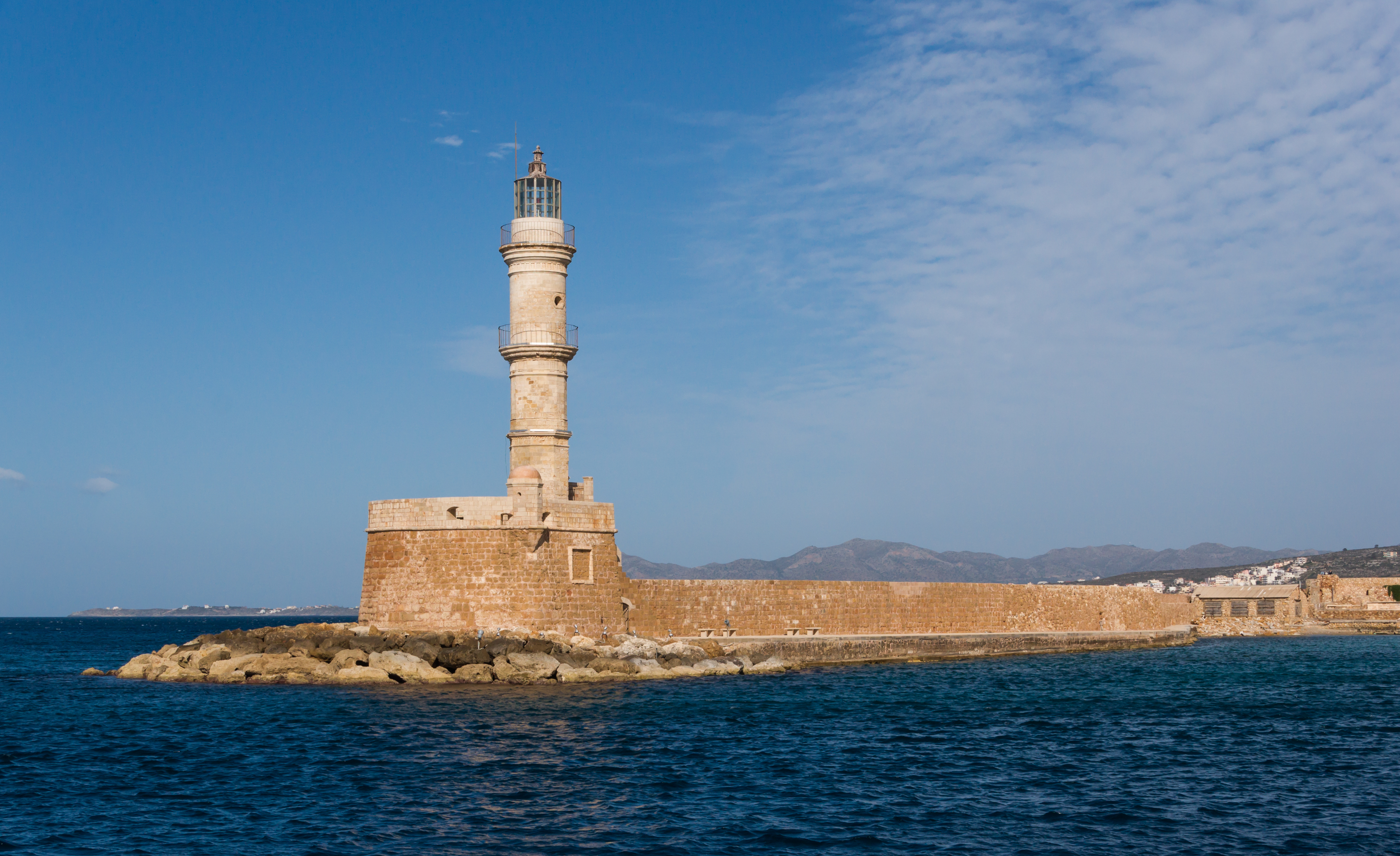 Chania lighthouse, Crete, Greece.